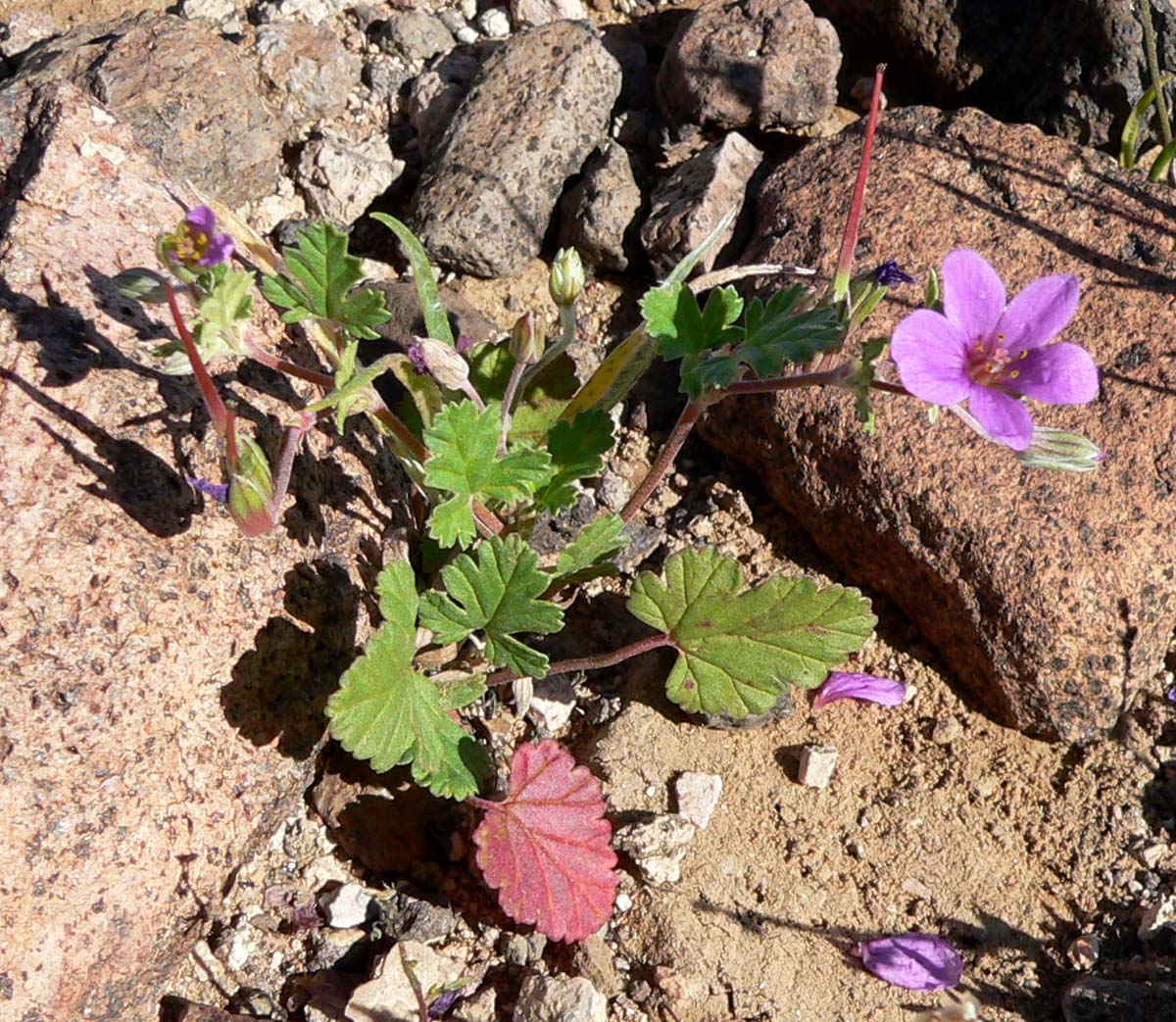 Photo of Erodium texanum near the western (Nevada) shore of Lake Mead